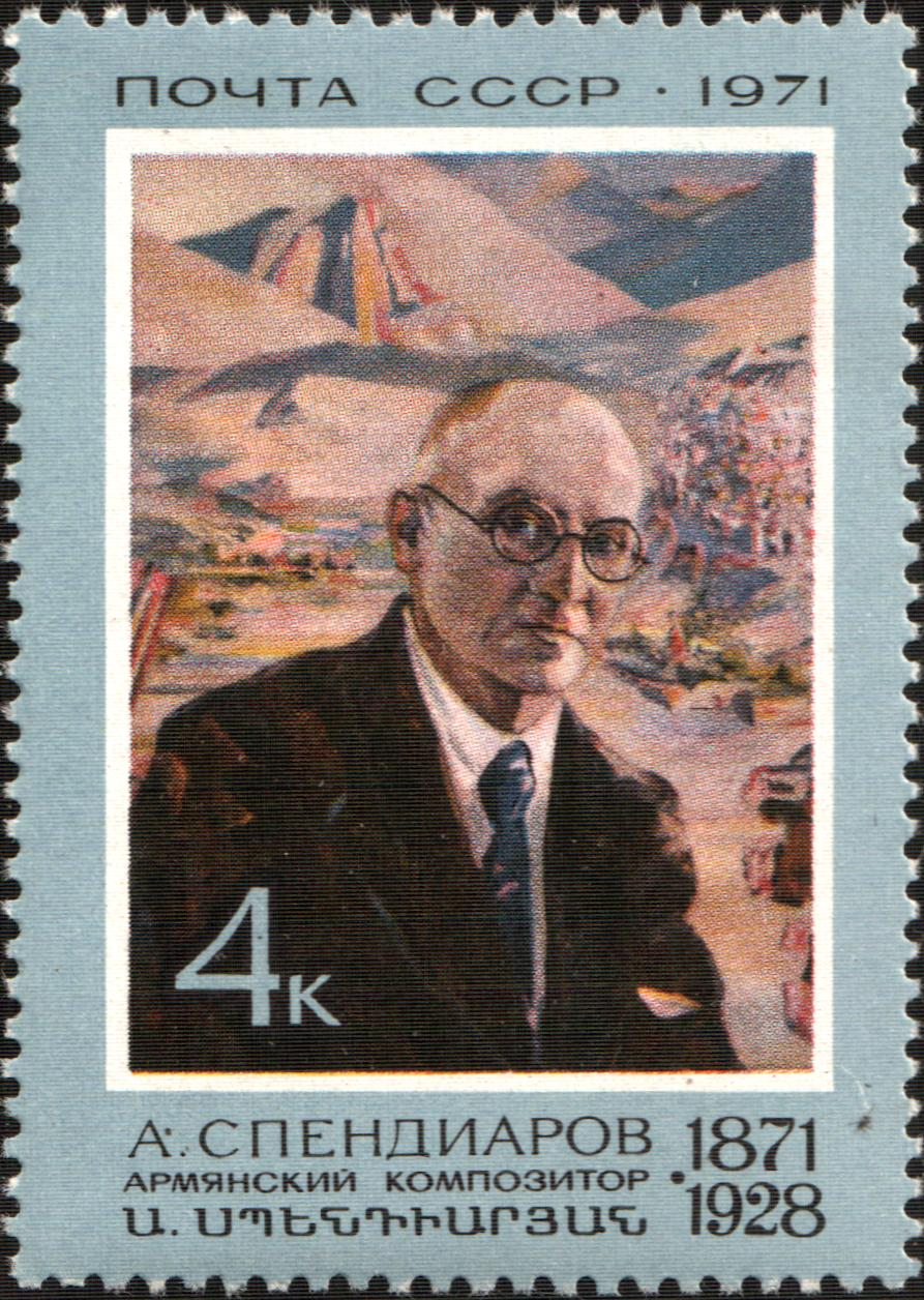 USSR stamp: Alexander Spendiaryan (after Martiros Saryan). Seriesː Birth Centenary of Alexander Afanasyevich Spendiaryan (Spendiarov, 1871-1928), Armenian music composer and conductor